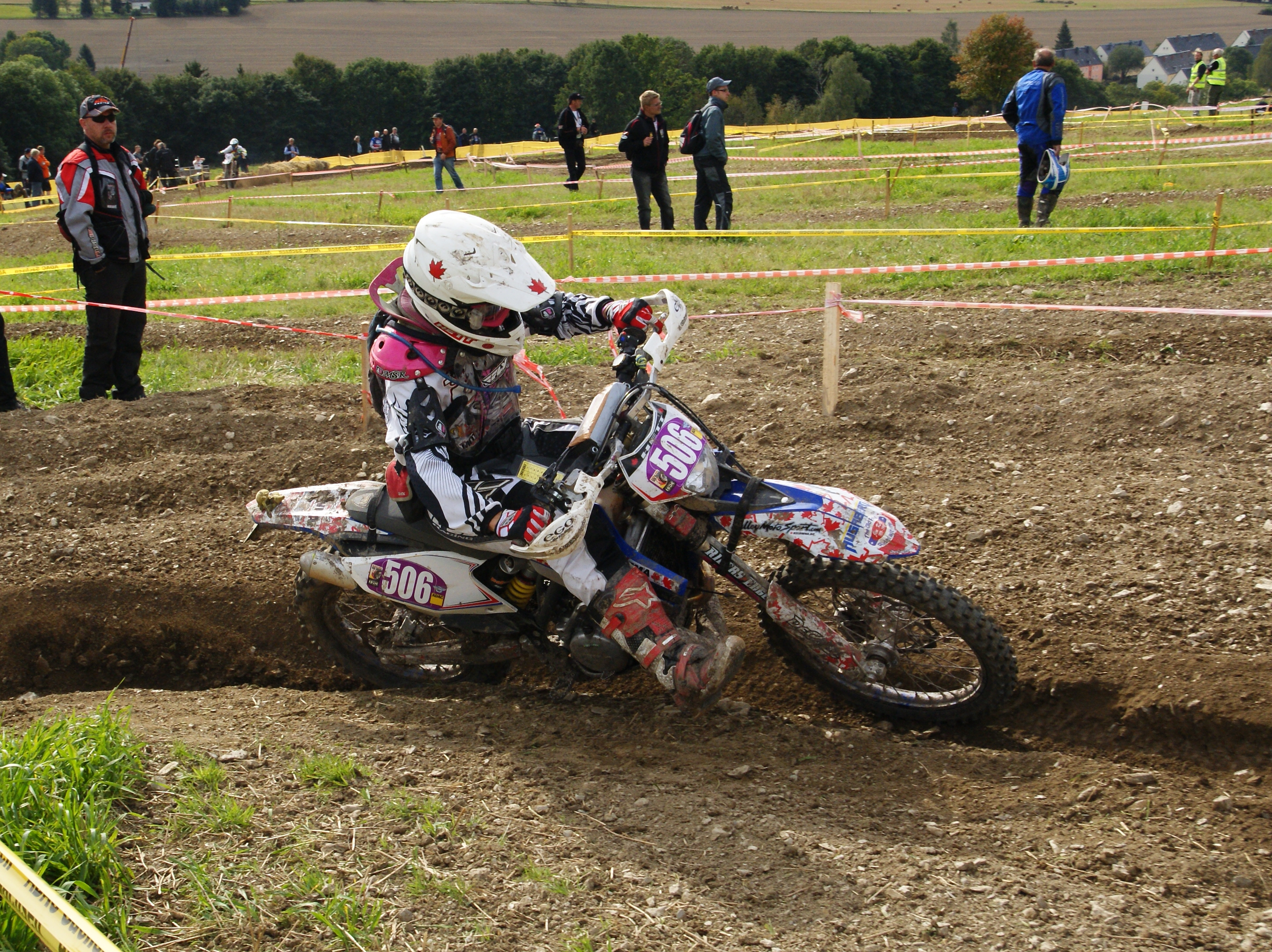 The making of this document was supported by the Community-Budget of Wikimedia Germany. 87. ISDE Saxony Red Bull SIX DAYS ST 3 Erzgebirgssparkassentest Zwönitz Victoria Hett